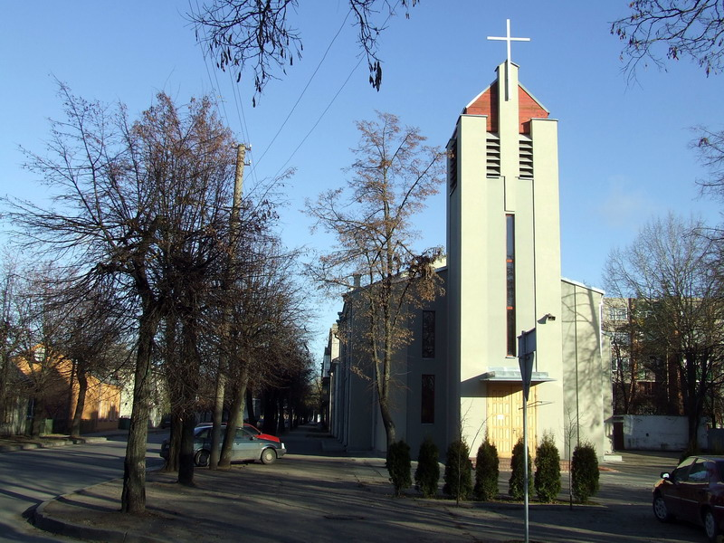 Šv. Juozapo church, Kaunas, Lithuania.